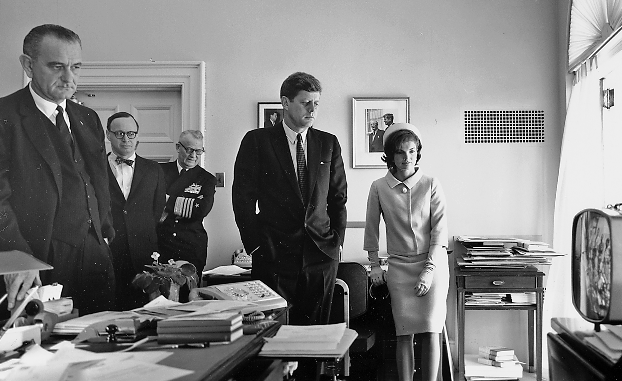 Watching flight of Astronaut Shepard on television. Left to right: Vice President Lyndon Johnson, Arthur M. Schlesinger, Jr., Admiral Arleigh Burke, President Kennedy, Mrs. Kennedy. White House, Office of the President's Secretary.